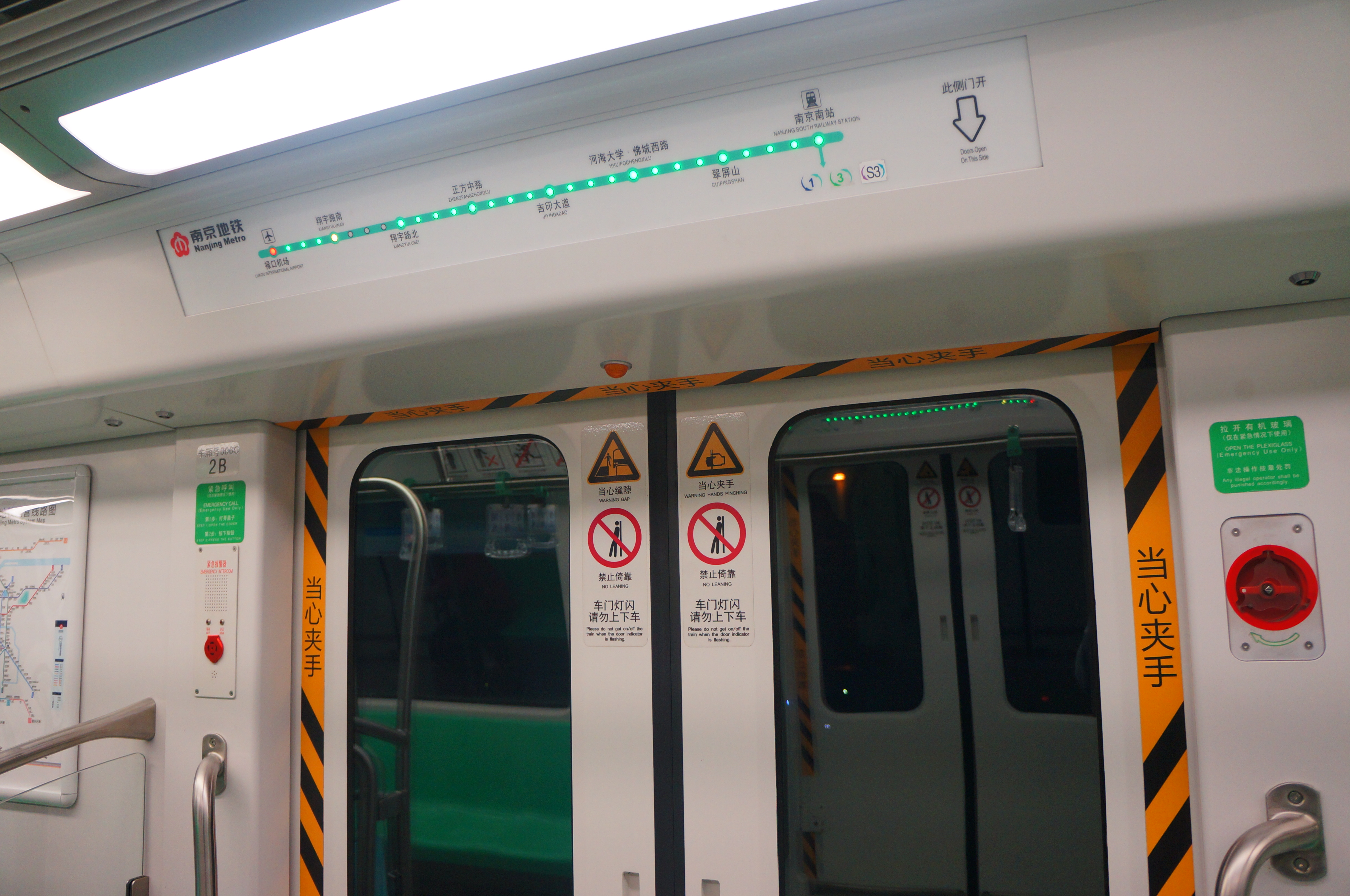 201712 Door of NJM S1 Rolling Stock, the door chime sound of S1 is same as MTR's opening chime.